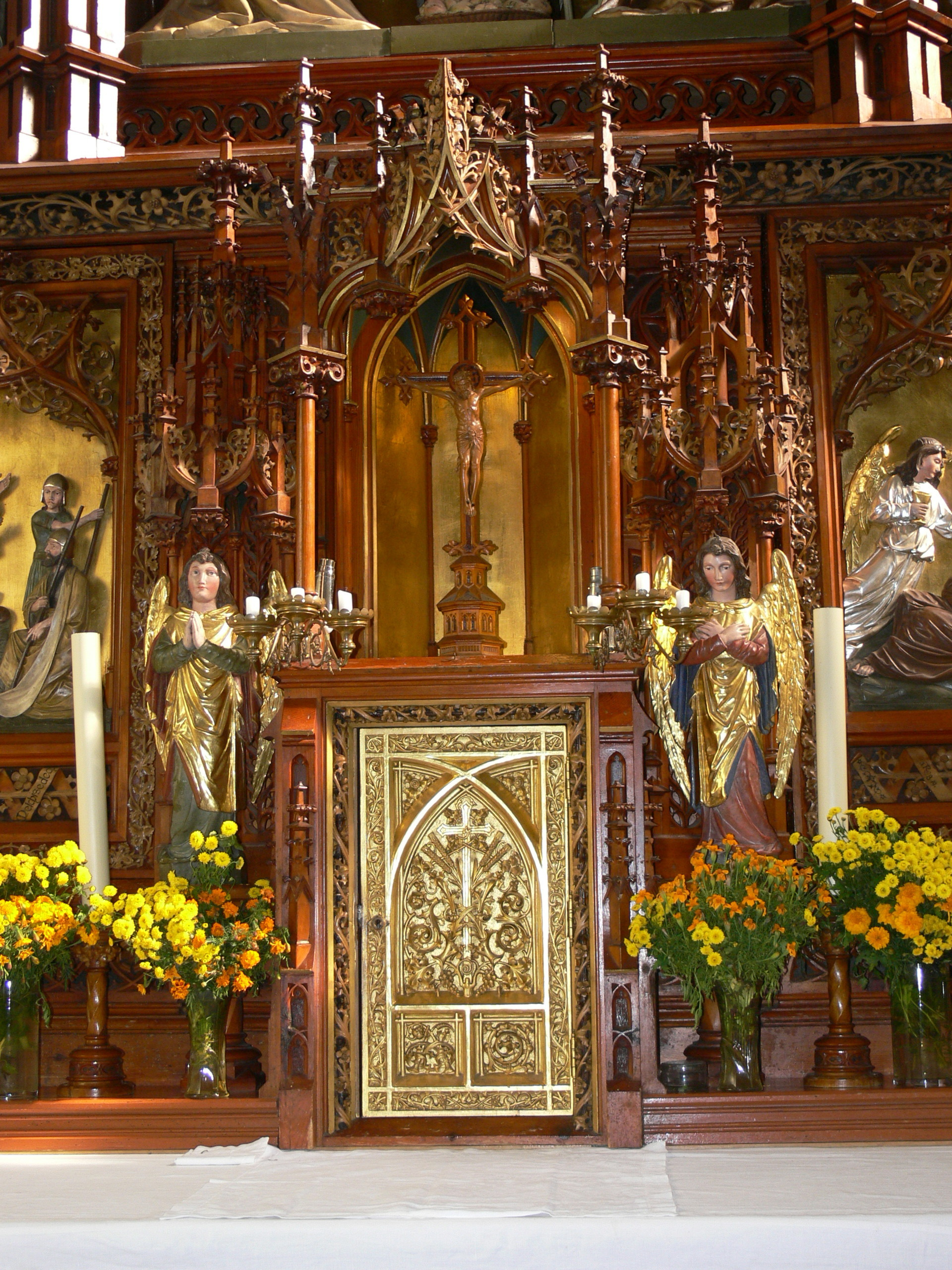 Haslach an der Mühl ( Upper Austria ). Saint Nicholas parish church - High altar ( 1901 ) - Tabernacle.